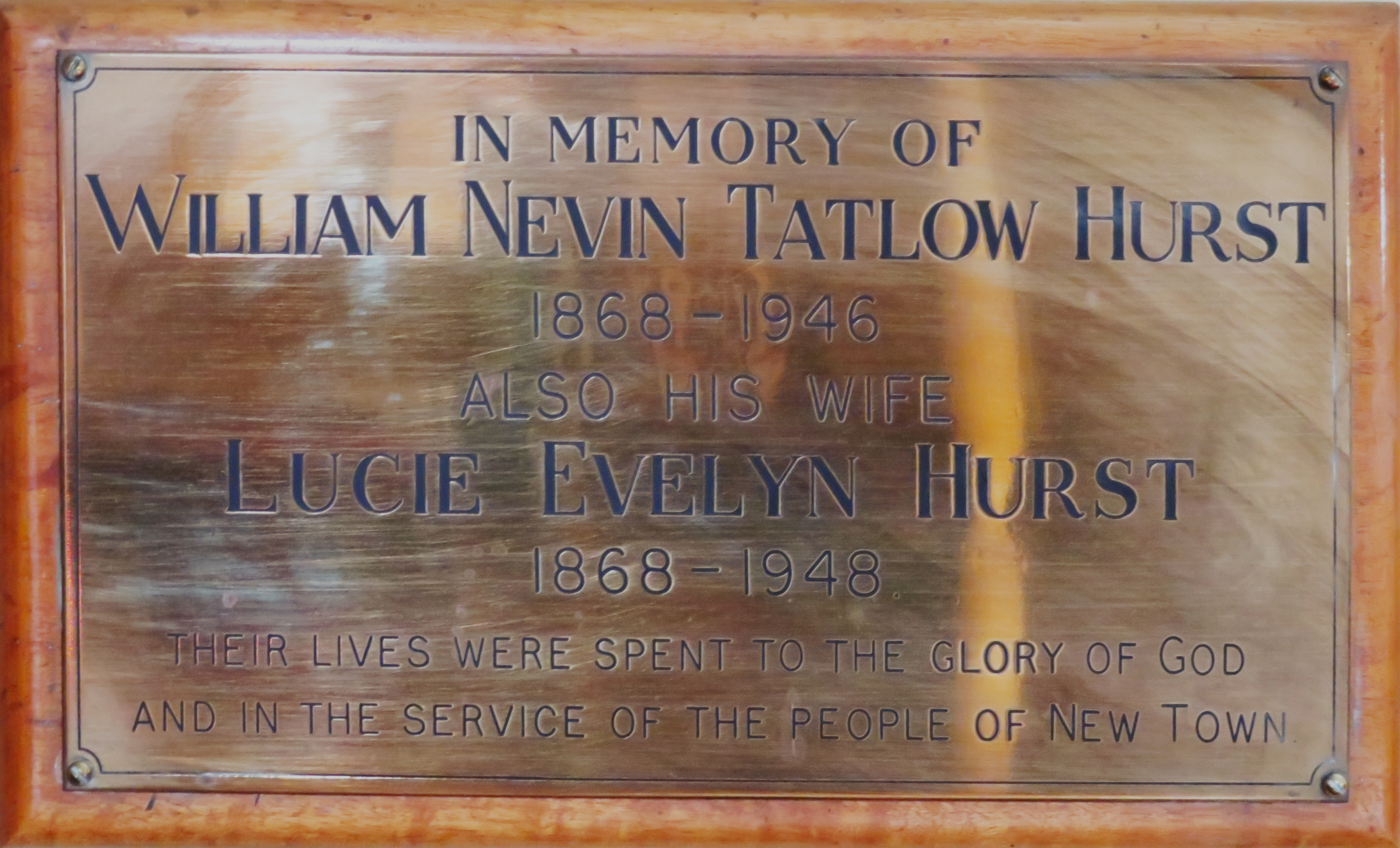 W Nevin & Lucie Evelyn Hurst Memorial